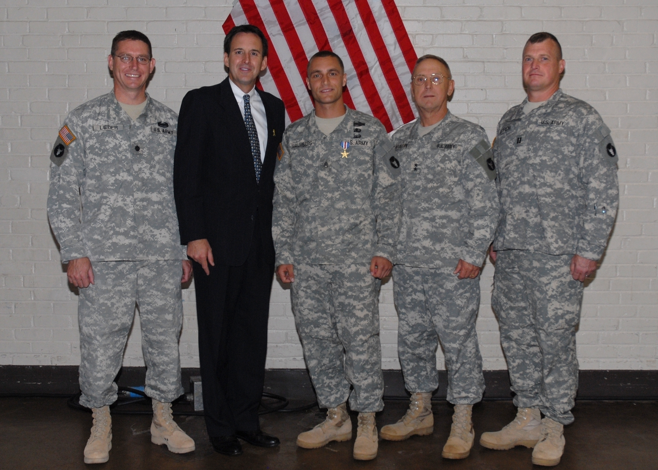 Silver Star Minnesota National Guard. U.S. Army Staff Sgt. Chad Malmberg (center), following receiving the Silver Star for action taken during Operation Iraqi Freedom. Presented by Minnesota Governor Tim Pawlenty and 34th Infantry Division commander Maj. Gen. Rick Erlandson.